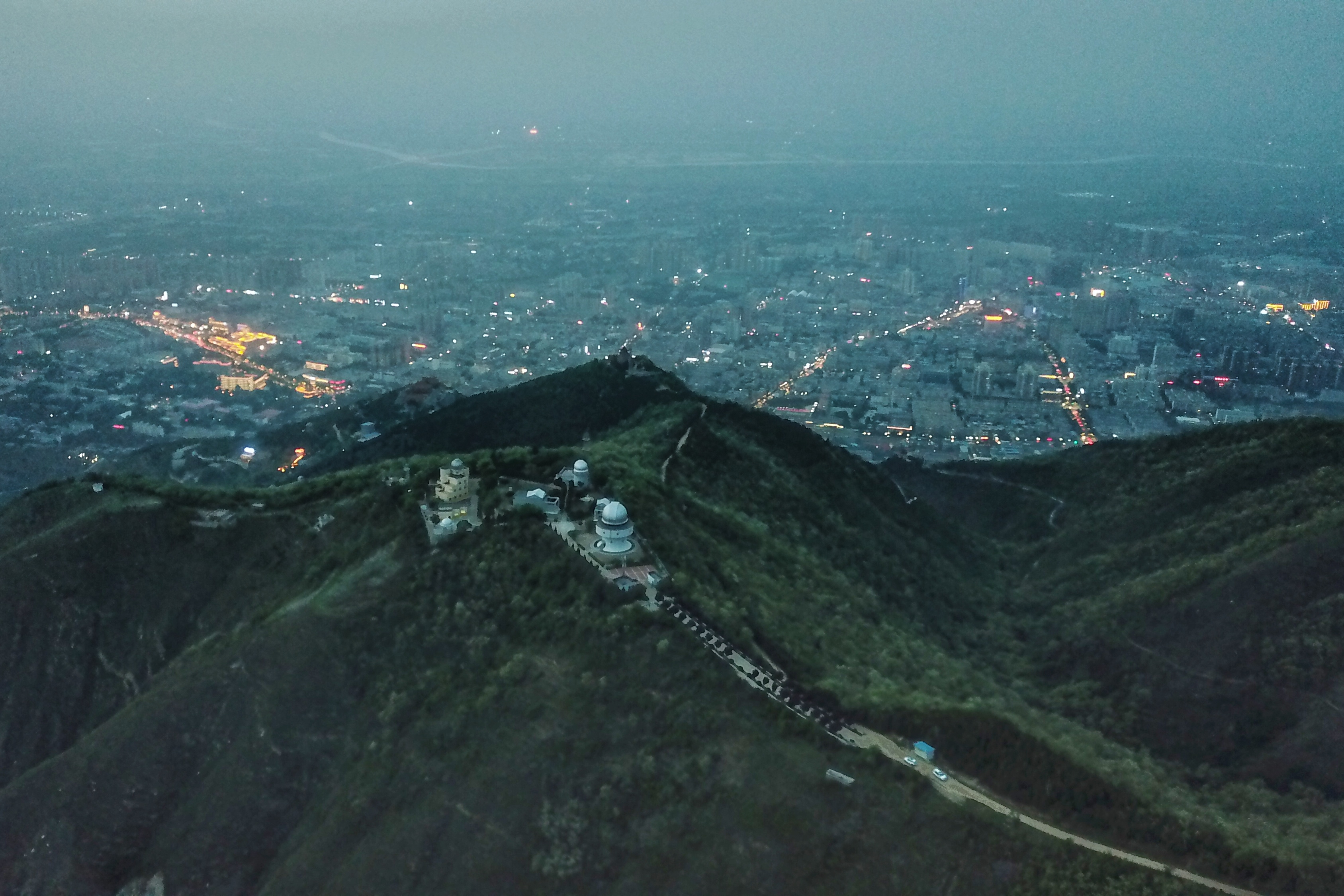 The National Time Service Center in China, on top of the Li Mountain.